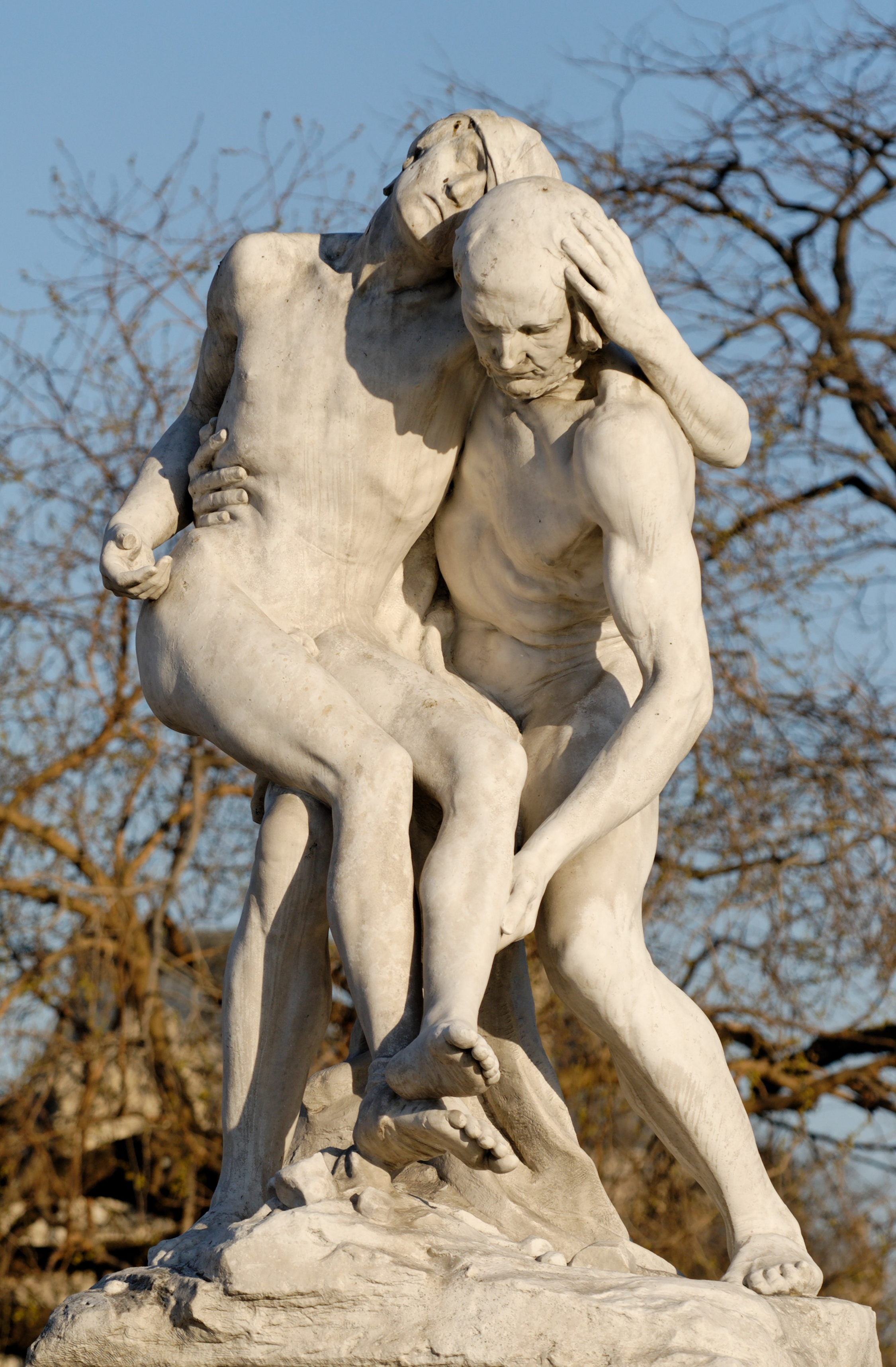 The Good Samaritan by François-Léon Sicard (French, 1862–1934). In the Tuileries Gardens, Paris.